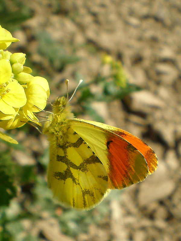 Male, near Higuera de Calatrava, Jaén, Spain. - March 19, 2008